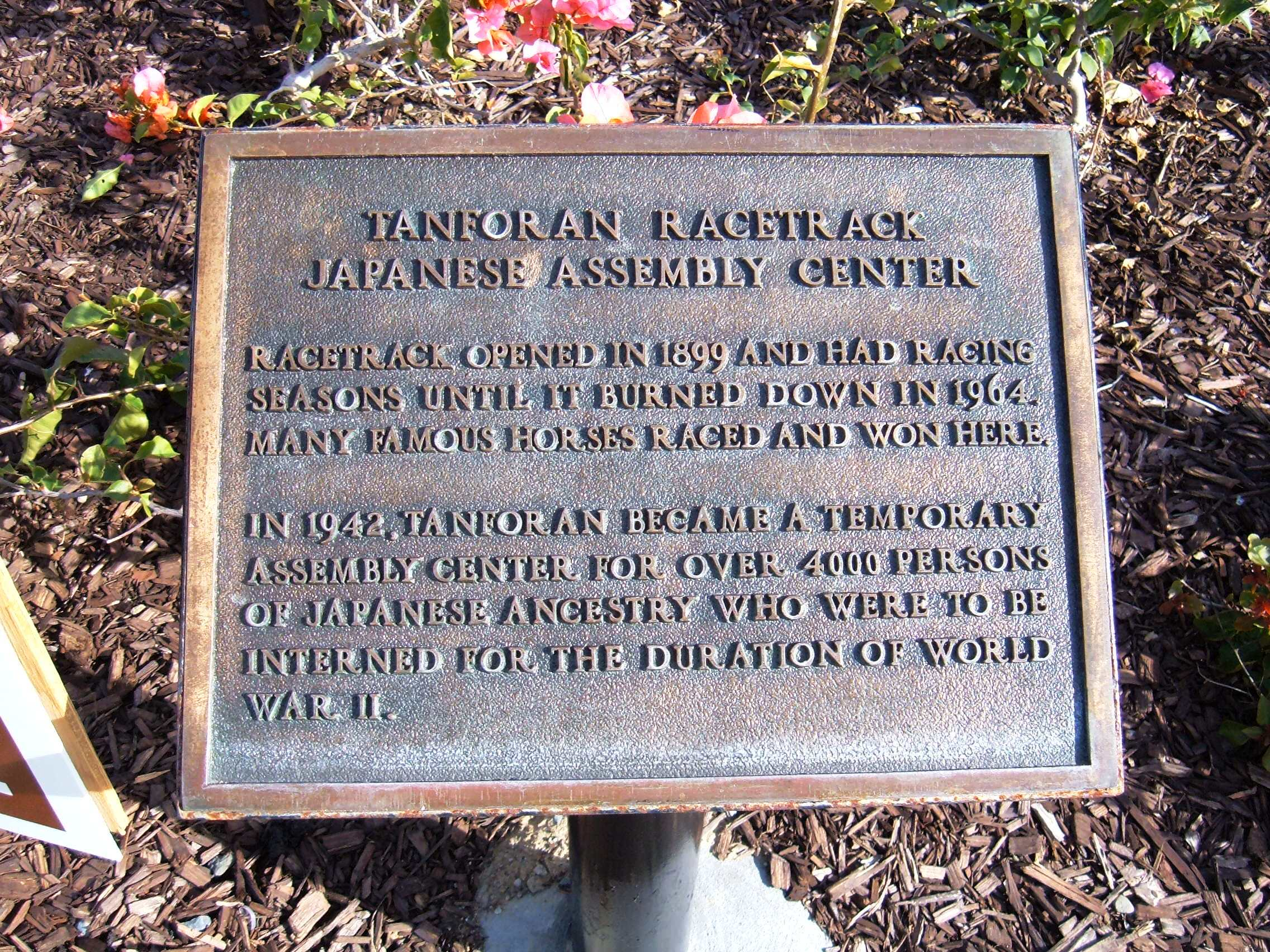 Plaque commemorating the Tanforan Assembly Center| — the use of Tanforan Racetrack as an assembly point/barracks for removal of Japanese-Americans in 1942. On the grounds of the Shops at Tanforan in San Bruno, California.